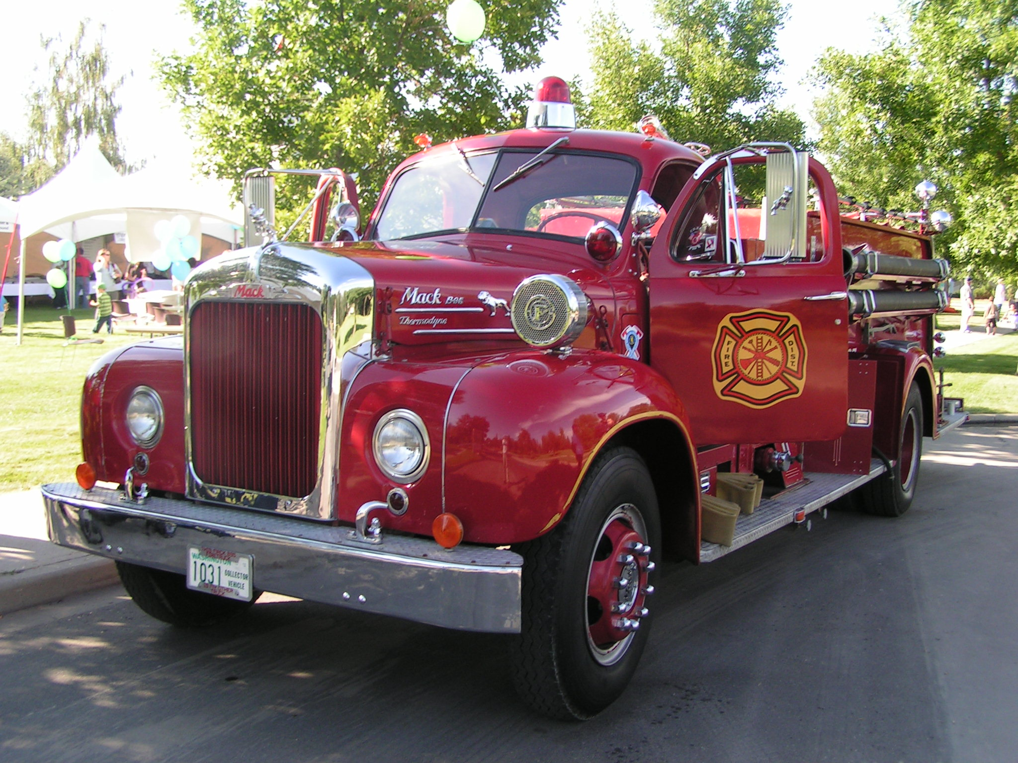 Origional, Unrestored. Fully functional. 1 of 350 produced by Mack. Owner was very friendly letting the kids play in it. He traded his Corvette in for this and says its much more fun.1961 Mack B95